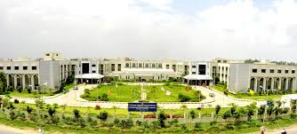 Sanagreddy Integreated Collectorate office-Biggest one in telangana